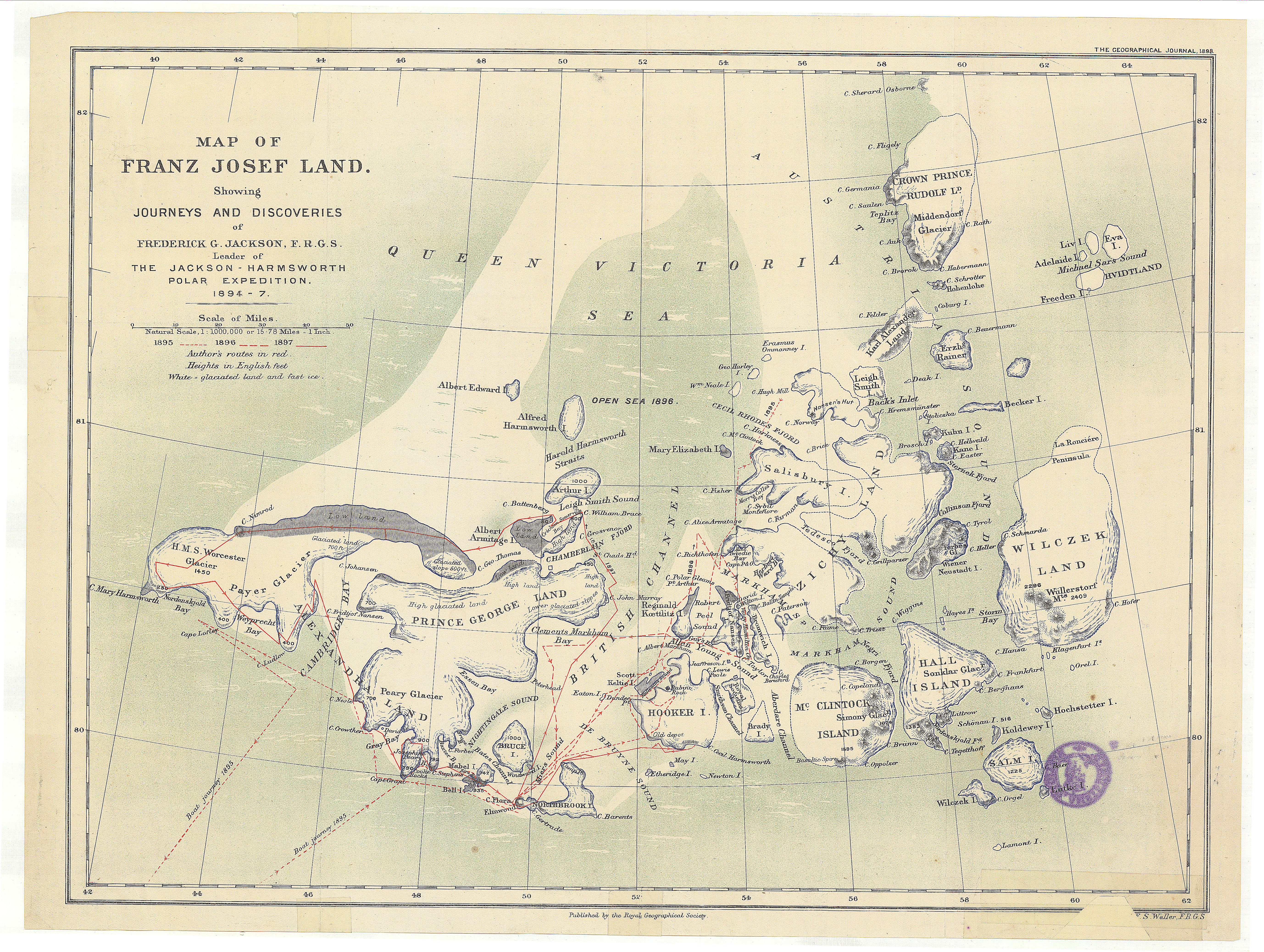 Map of Franz Josef Land : showing journeys and discoveries of Frederick G. Jackson, F.R.G.S., leader of the Jackson-Harmsworth Polar Expedition 1894-7 Scale 1:1.000.000 Publisher: London, Royal Geographical Society Lithogr., color, 31 × 41 cm Published in v. 11, no. 2, February 1898 issue of the Geographical Journal, accompanying article titled "Three years’ exploration in Franz Josef Land" by Frederick G. Jackson.